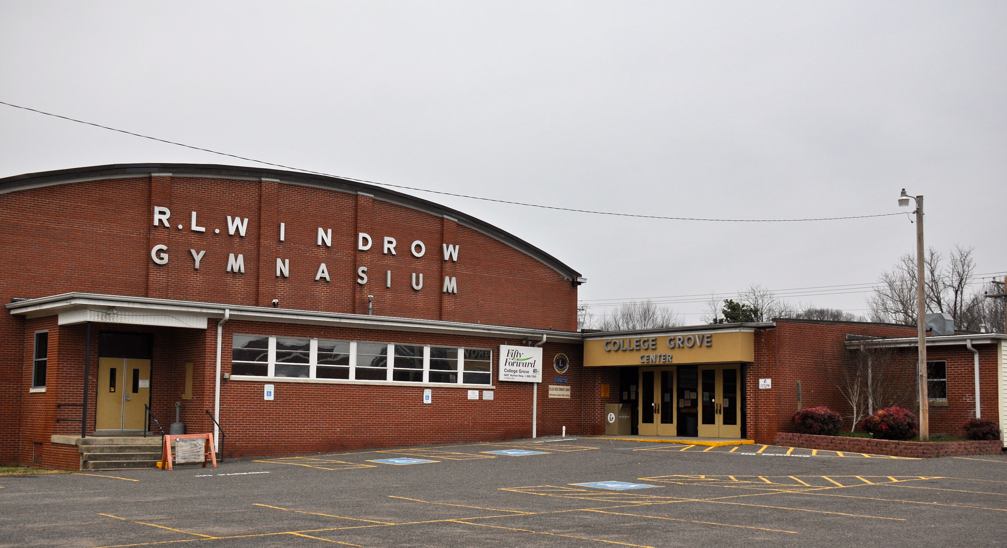 Located at College Grove, Tennessee.